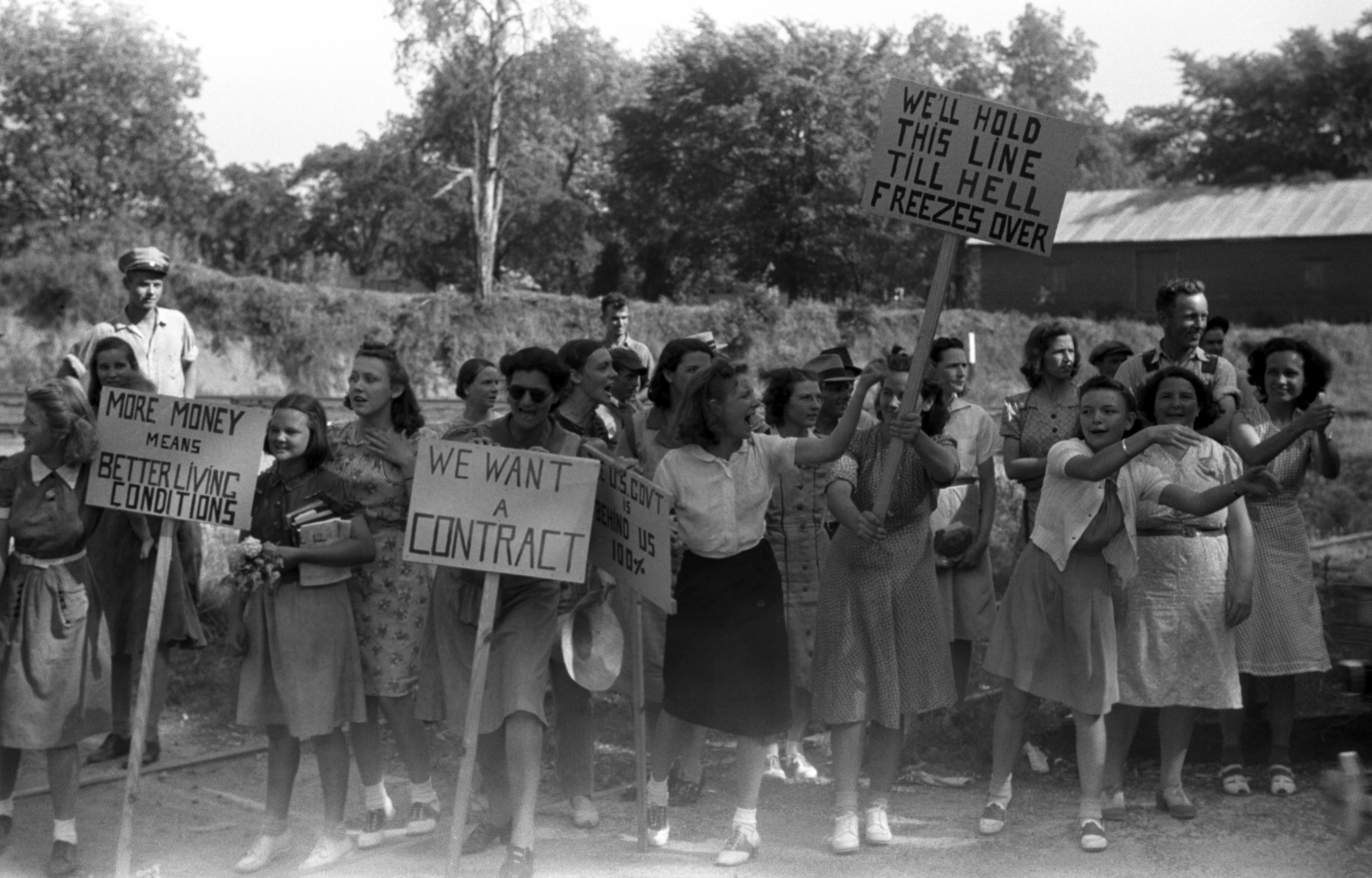 CIO pickets outside a mill in Greensboro pose for their picture. Greene County, Georgia